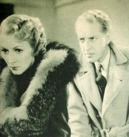 Otto Kruger and Karen Morley in the 1934 film, The Crime Doctor. Other information for an explanation of the copyright for information regarding public domain